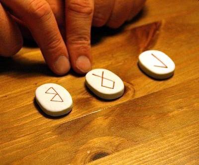 Picture of Runes used in Fortune Telling